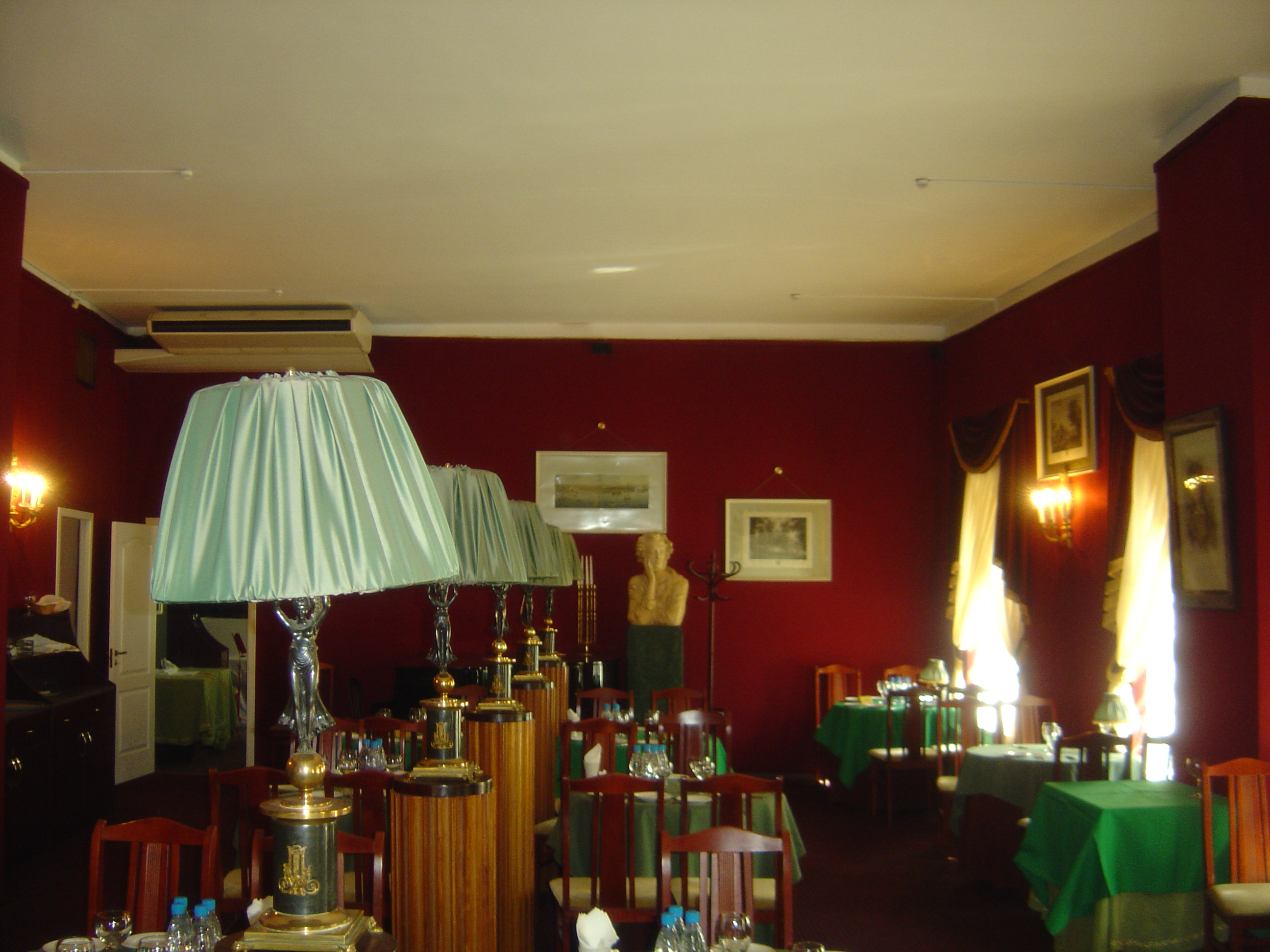 Interior of Literary Cafe in Saint Petersburg, Russia